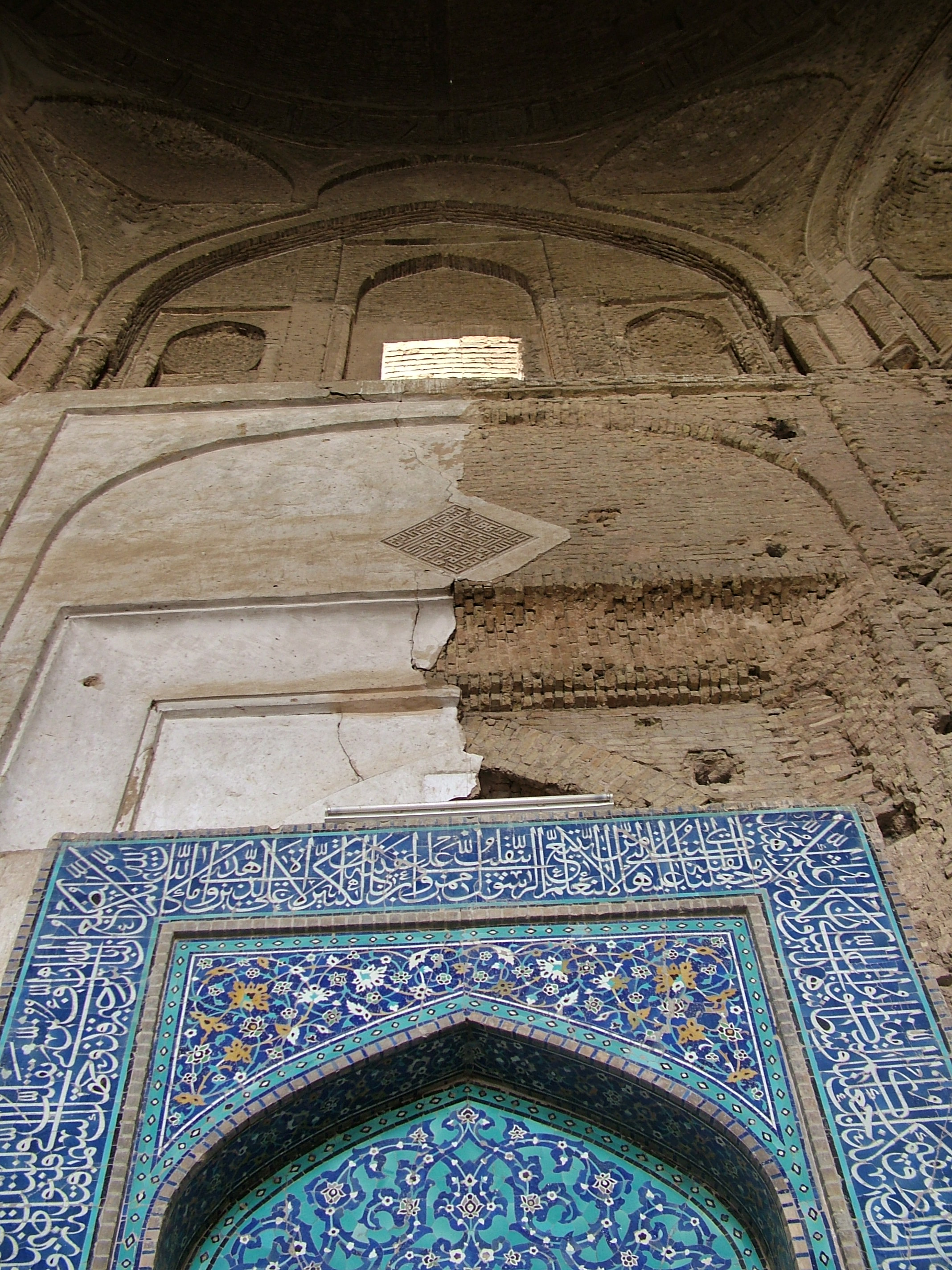 Mehrab of Jameh Mosque of Isfahan which changed and replaced during 13 centuries